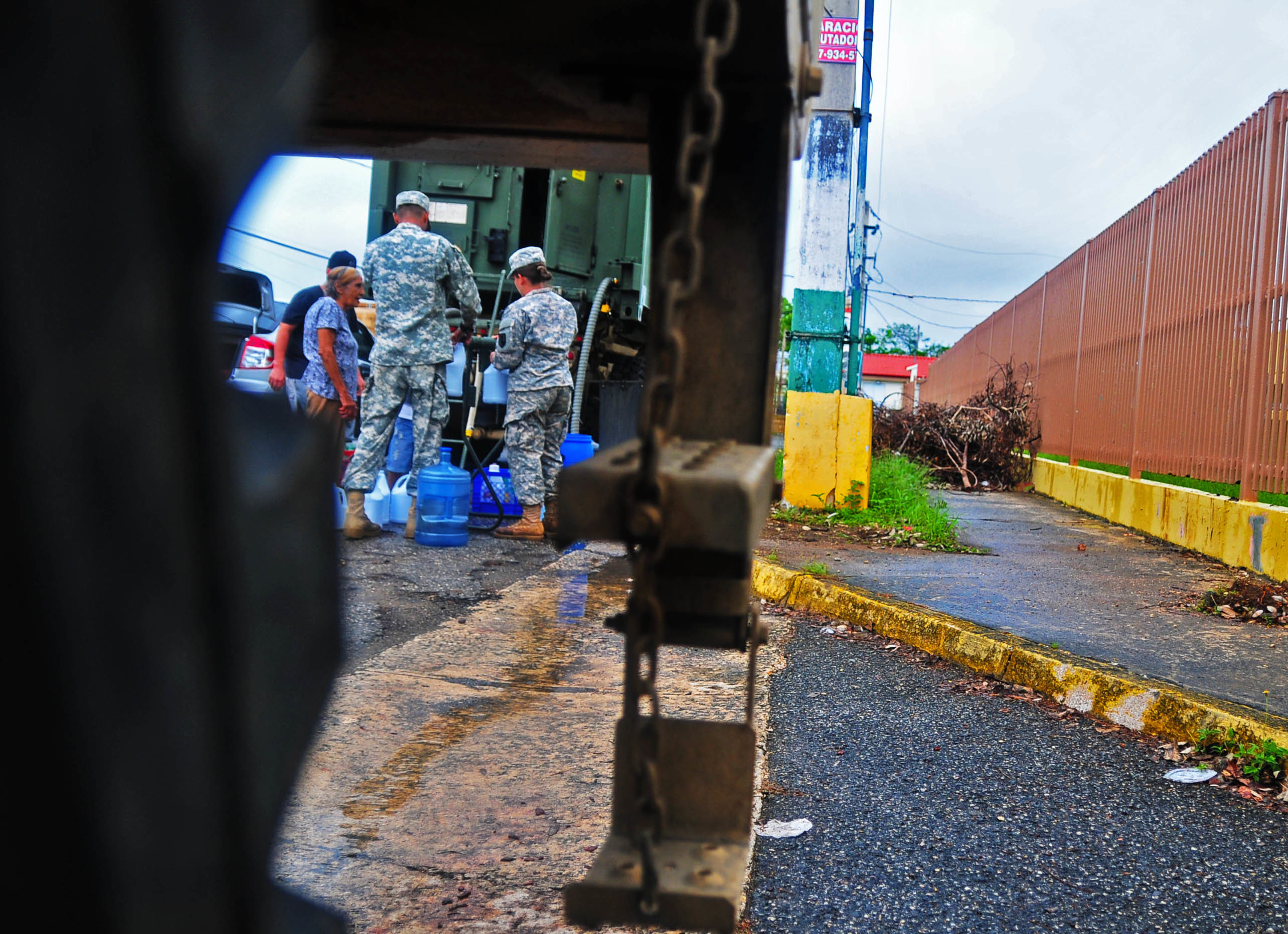 Citizen-Soldiers with the 714th Quartermaster Company, 191st Regional Support Group, from the Puerto Rico National Guard distributed water to the community of Barahona in the municipality of Morovis, Puerto Rico, Oct. 16. The Guardsmen arrived with two vehicles, each carrying 2,000 gallons of purified water. (Photos by Spc. Agustín Montañez, PRNG-PAO)